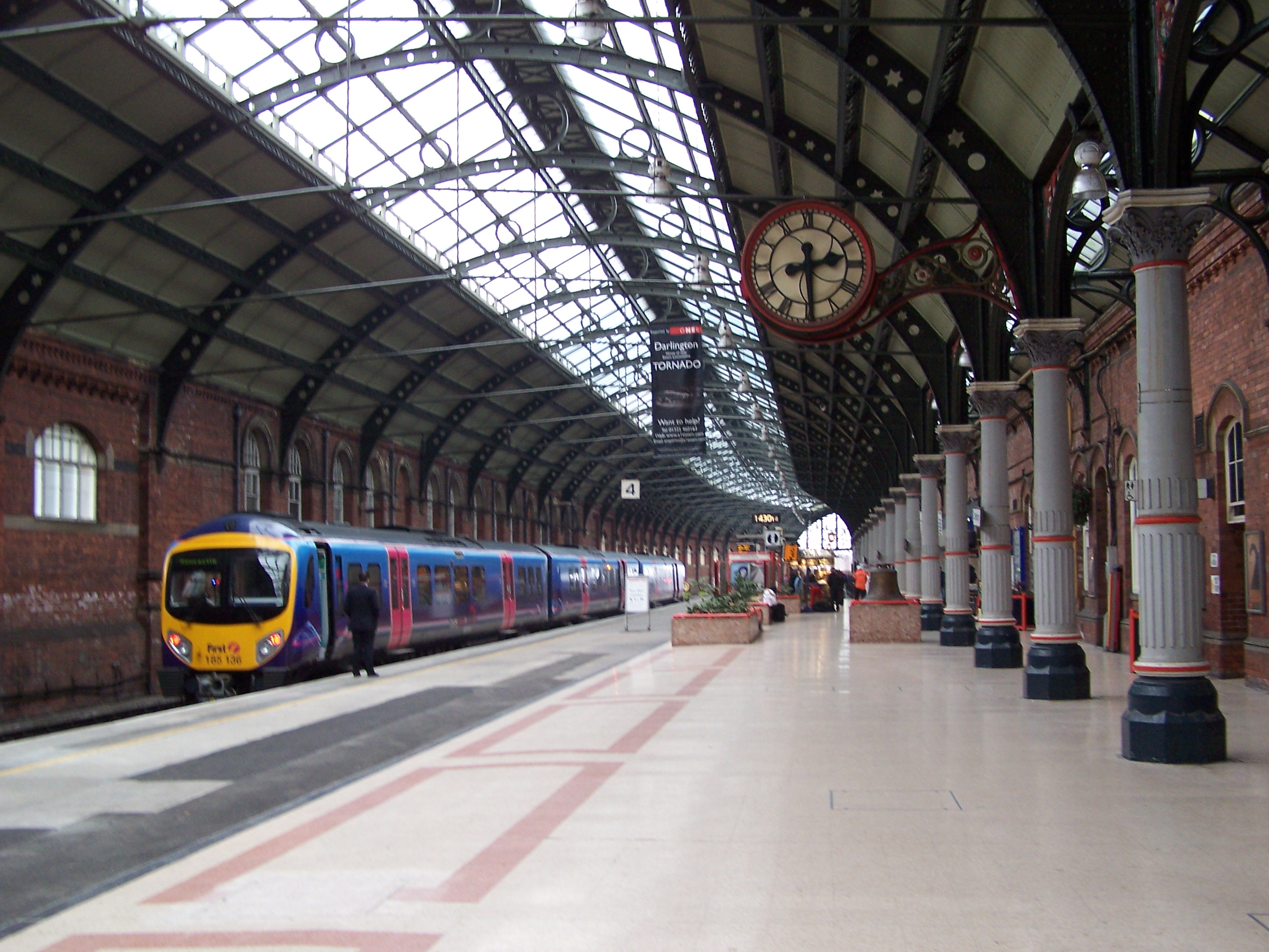 Photograph of Darlington railway station taken by Adam Brookes (Adambro). TransPennine Express, British Rail Class 185, 185136 waits at Platform 4 for time with a service to Newcastle upon Tyne.